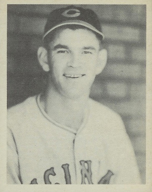 1939 Play Ball card of Lee Grissom of the Cincinnati Reds. PD-not-renewed.